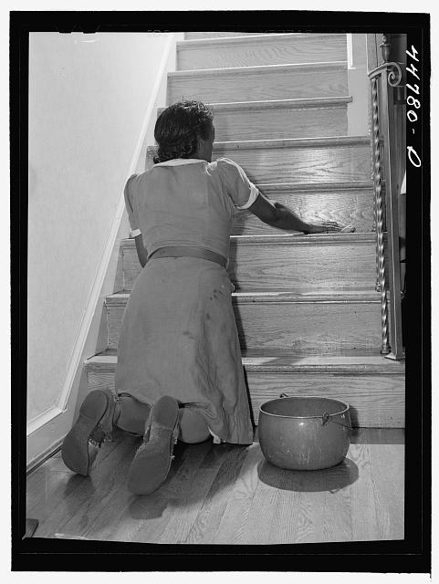 Negro maid. Washington, D.C.